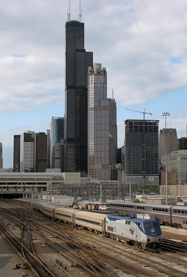 Train 305 a Lincoln service train leaves Chicago for St. Louis on National Train Day.